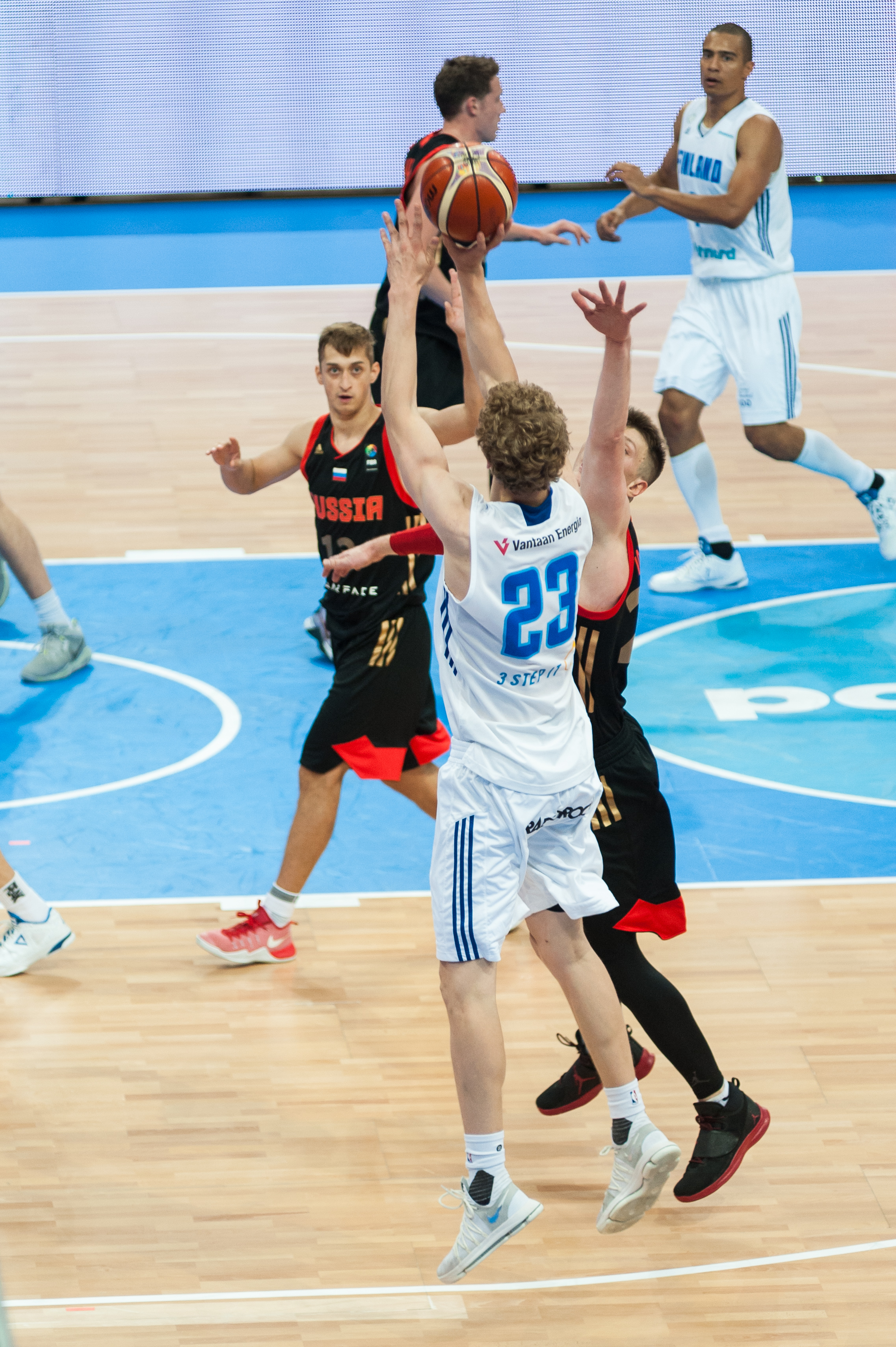 A basketball friendly game between Finland and Russia. Both teams were preparing for the EuroBasket 2017 tournament.